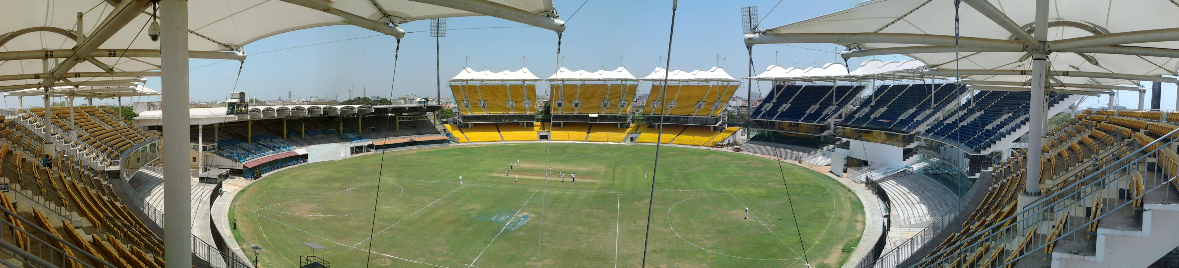 A panoramic view of the M. A. Chidambaram Stadium showing all the stands.